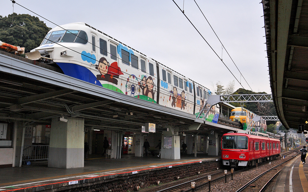 Meitetsu Type MRM 100 Monorail ( above ) and 3100 series EMU ( bottom, 3116F ), at Inuyama Yuen Sta.